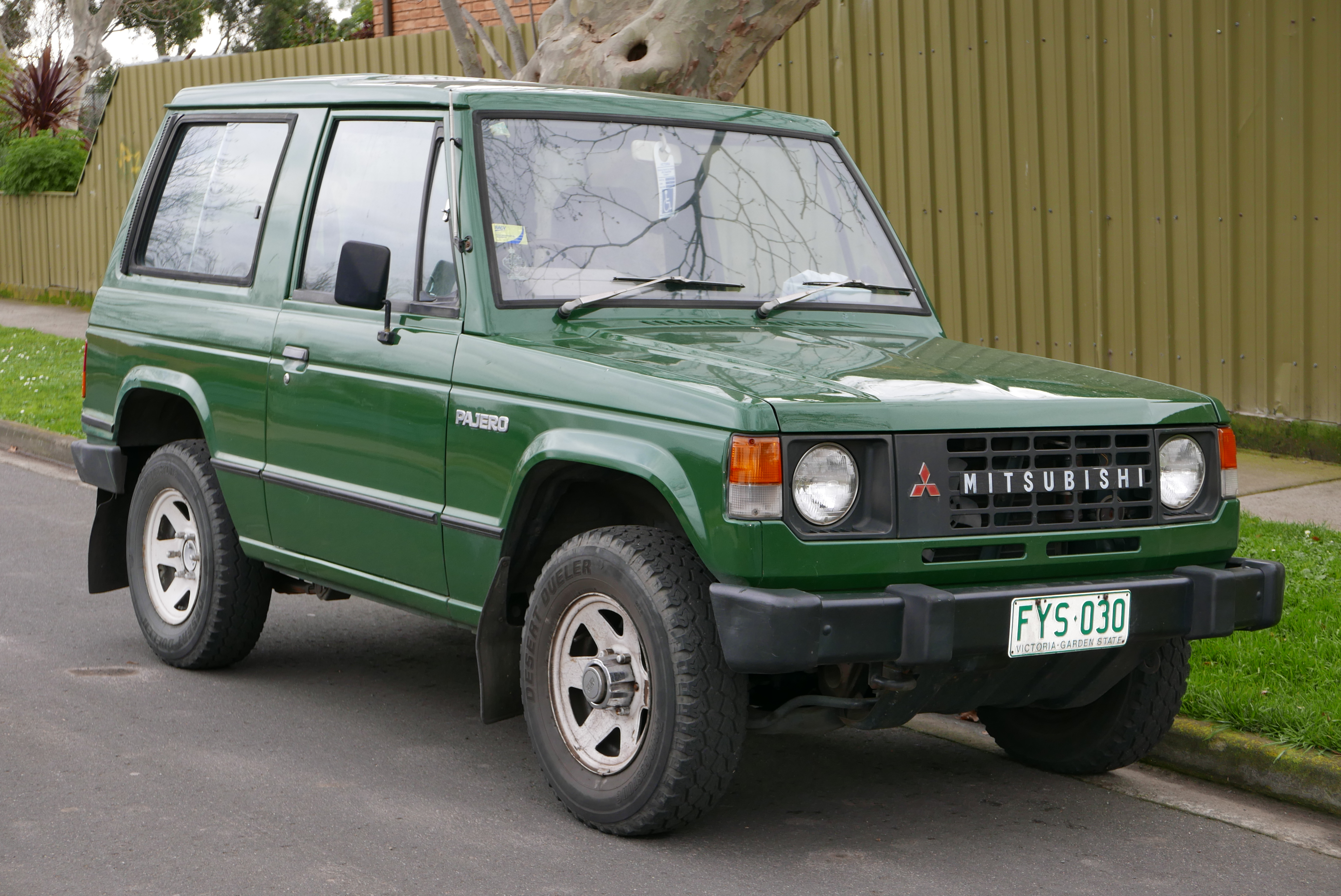 1984 Mitsubishi Pajero (NA) hardtop. Photographed in Alphington, Victoria, Australia. Vehicle registration enquiry results Jurisdiction Victoria Registration FYS030 Chassis code Not available Engine code 4G54DA6499 Compliance date Not available Year of manufacture 1984